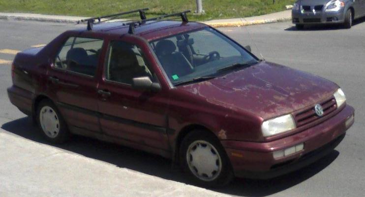 1993-1995 Volkswagen Jetta photographed in Montreal, Quebec, Canada.